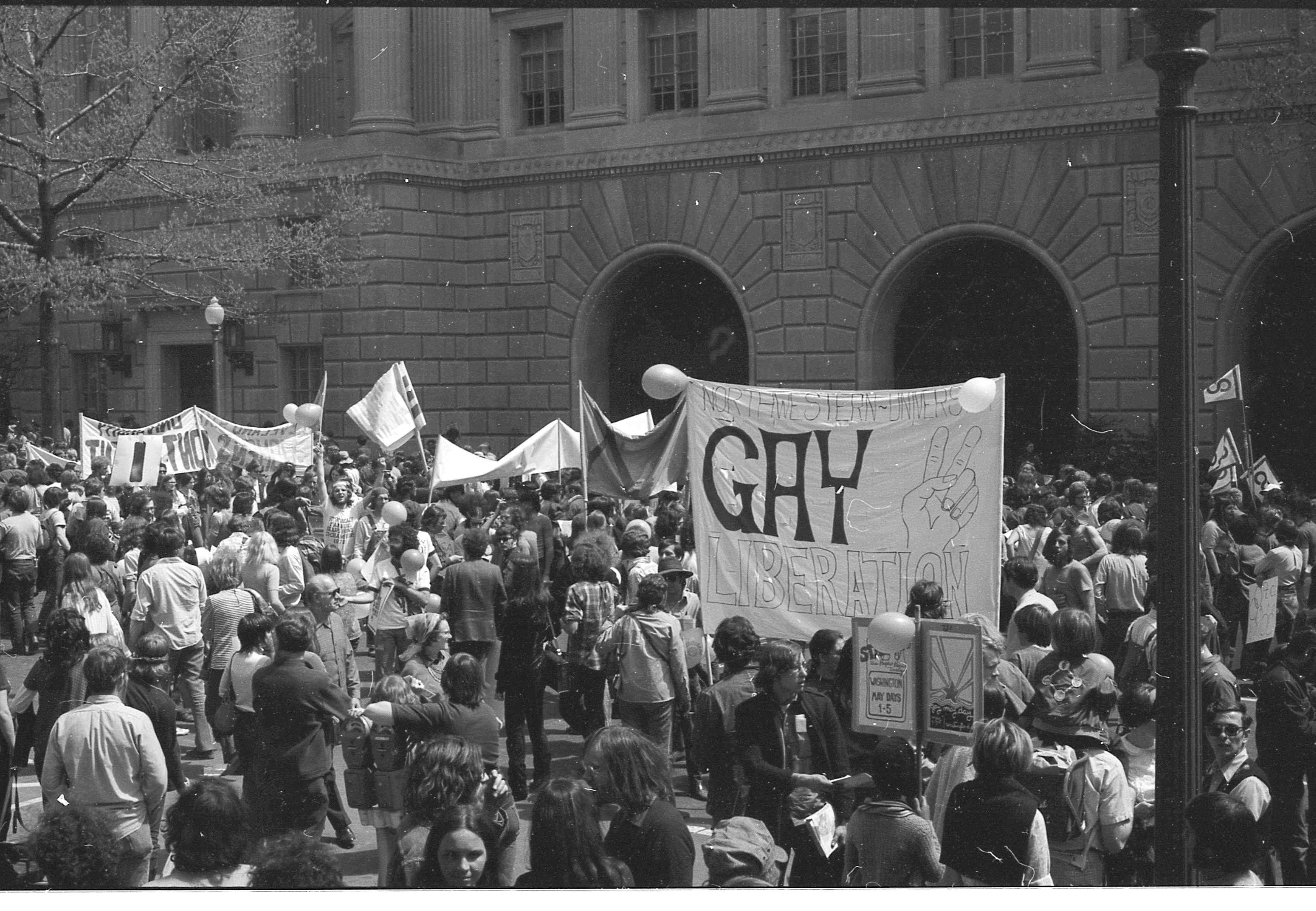 in the early 1970's the northwestern university gay liberation group attended the anti vietnam war demonstration in washington DC; this is a picture of the group with our signLocation: washington DC USAEvent type: demonstration delegation march in washingtonDate or year: 1970's